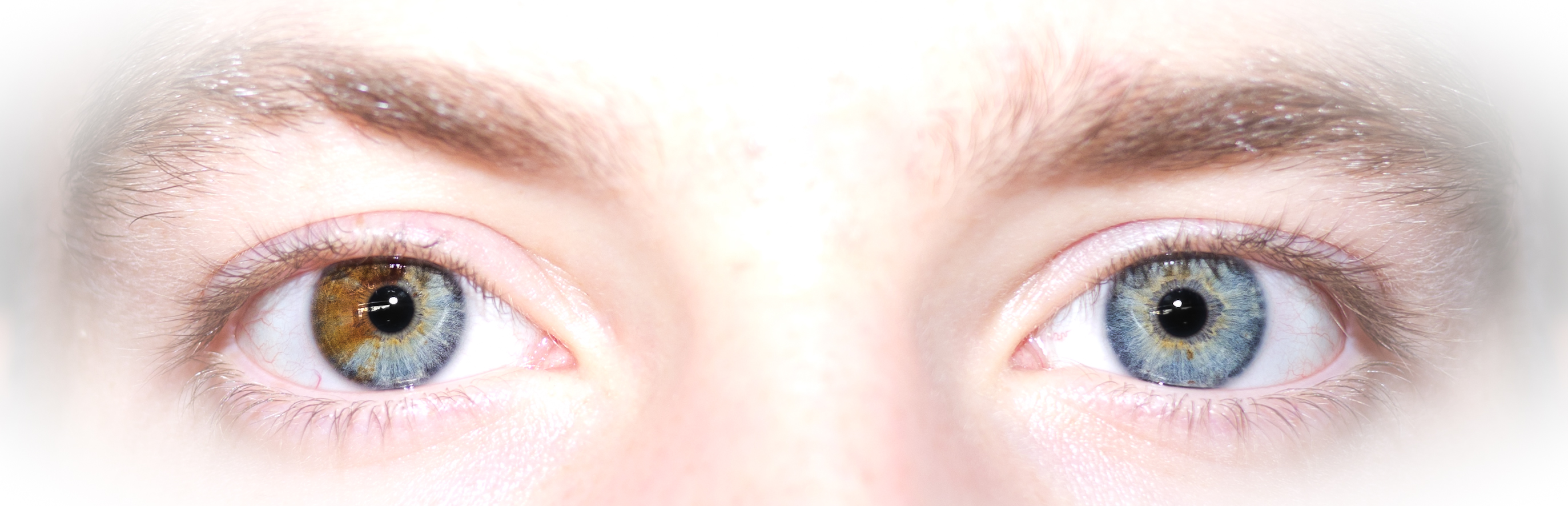 brown patch in blue-grey eye